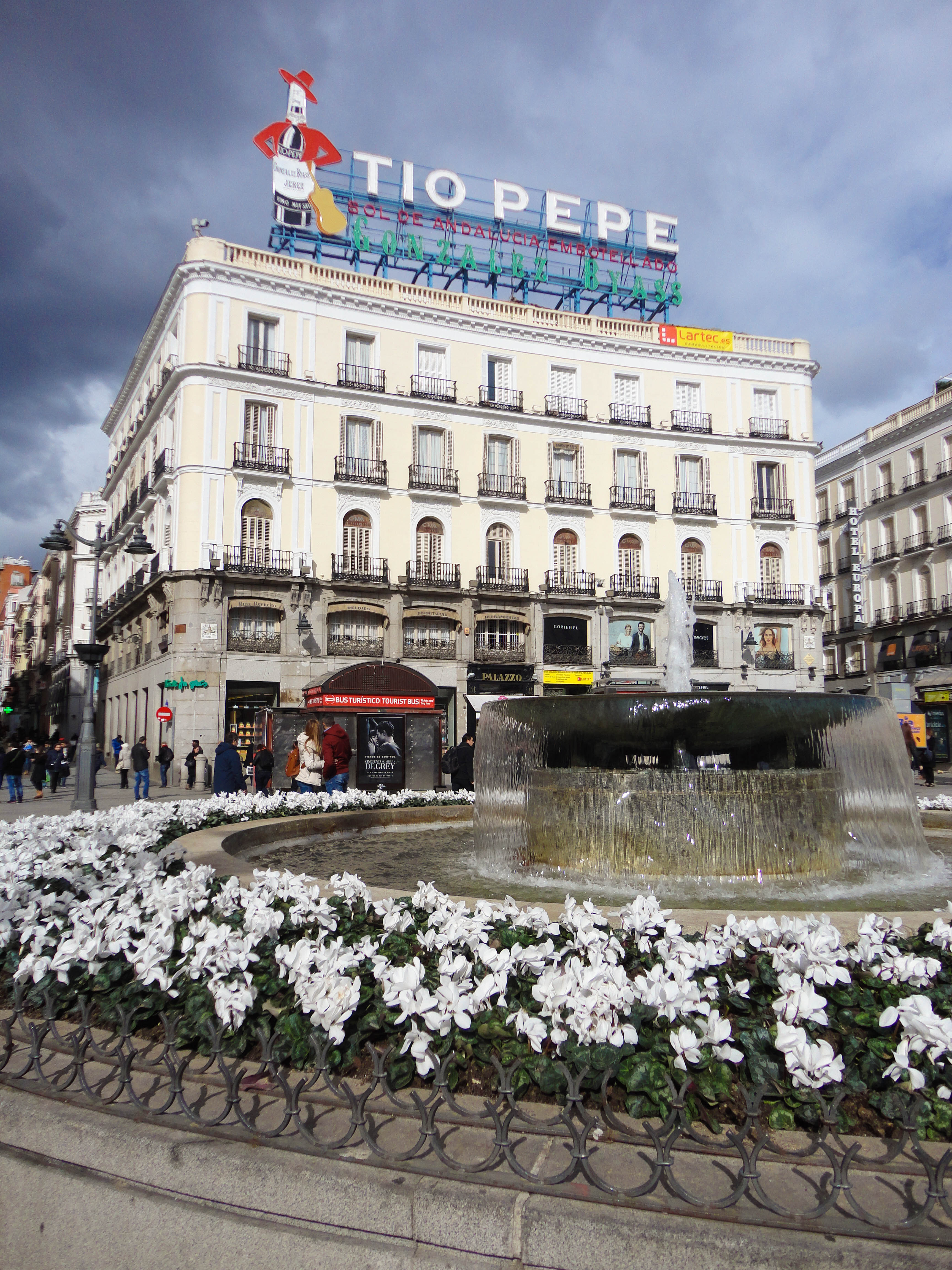 madrid, spain - february 2015